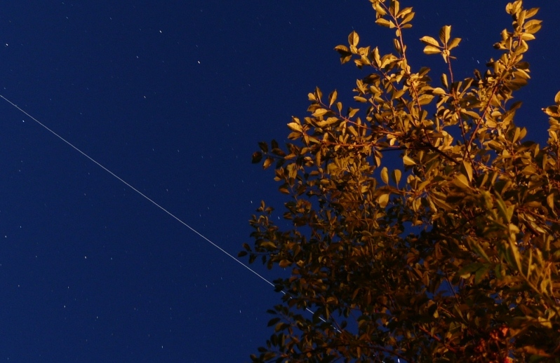 The ISS pass over Zalasowa (village in Poland); July 29, 2008